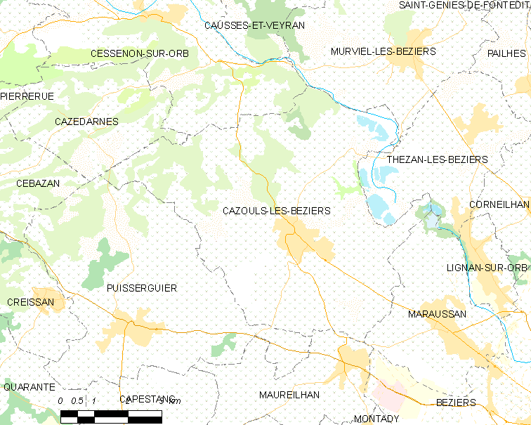 Map commune FR insee code 34069.png - Cazouls-lès-Béziers